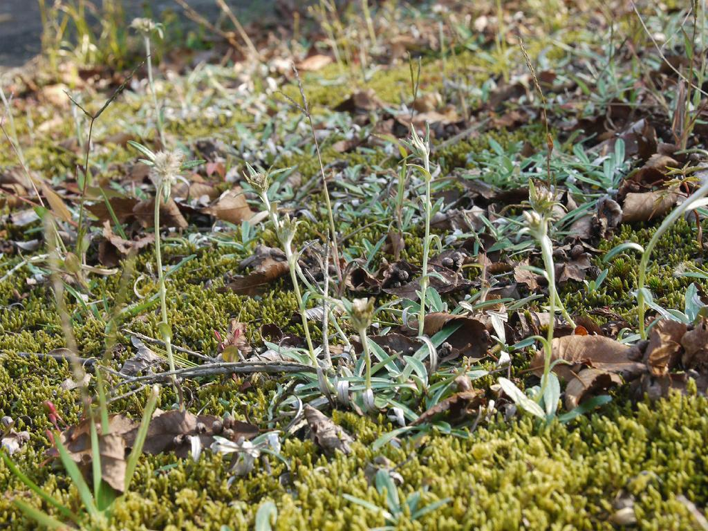 Gnaphalium japonicum(Asteraceae)